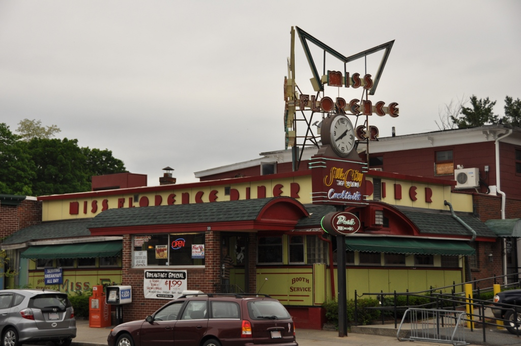 A photograph of the historic Miss Florence Diner in Florence, Massachusetts.